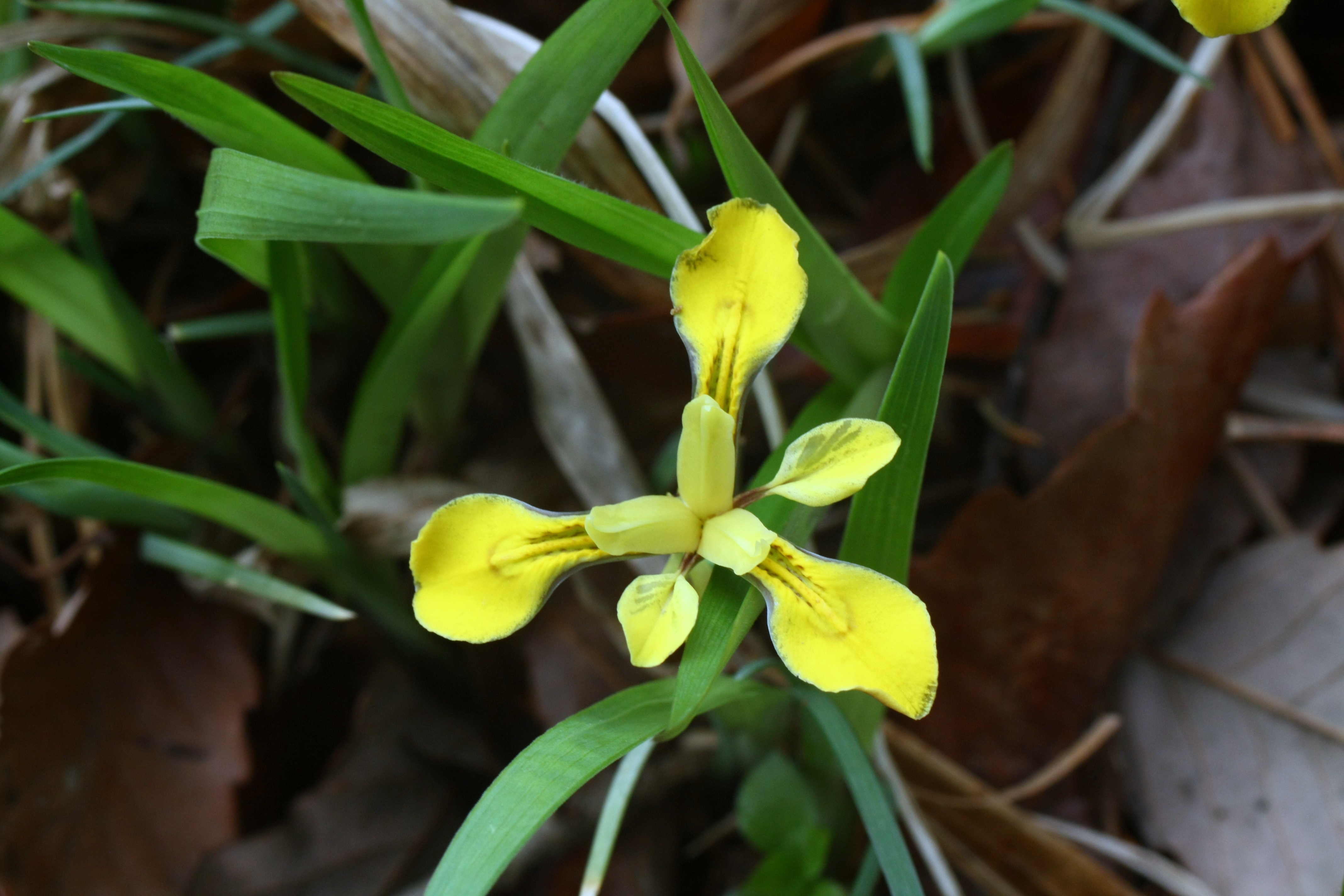 Iris minutoaurea in the KOREA NATIONAL ARBORETUM